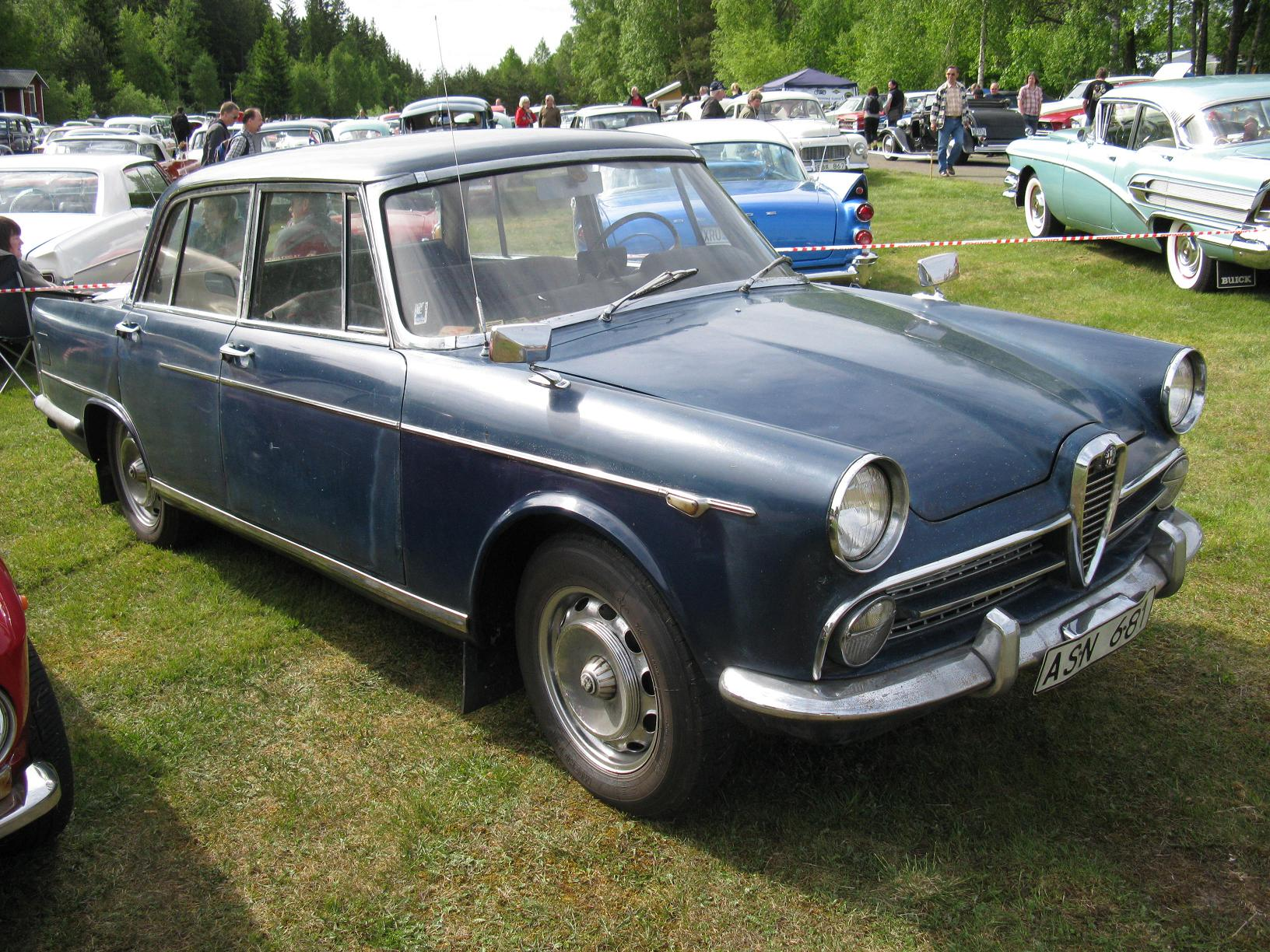 1960 Alfa Romeo 2000 Berlina, sold new in Sweden but not in traffic since 1977. Chassis number AR1020000645